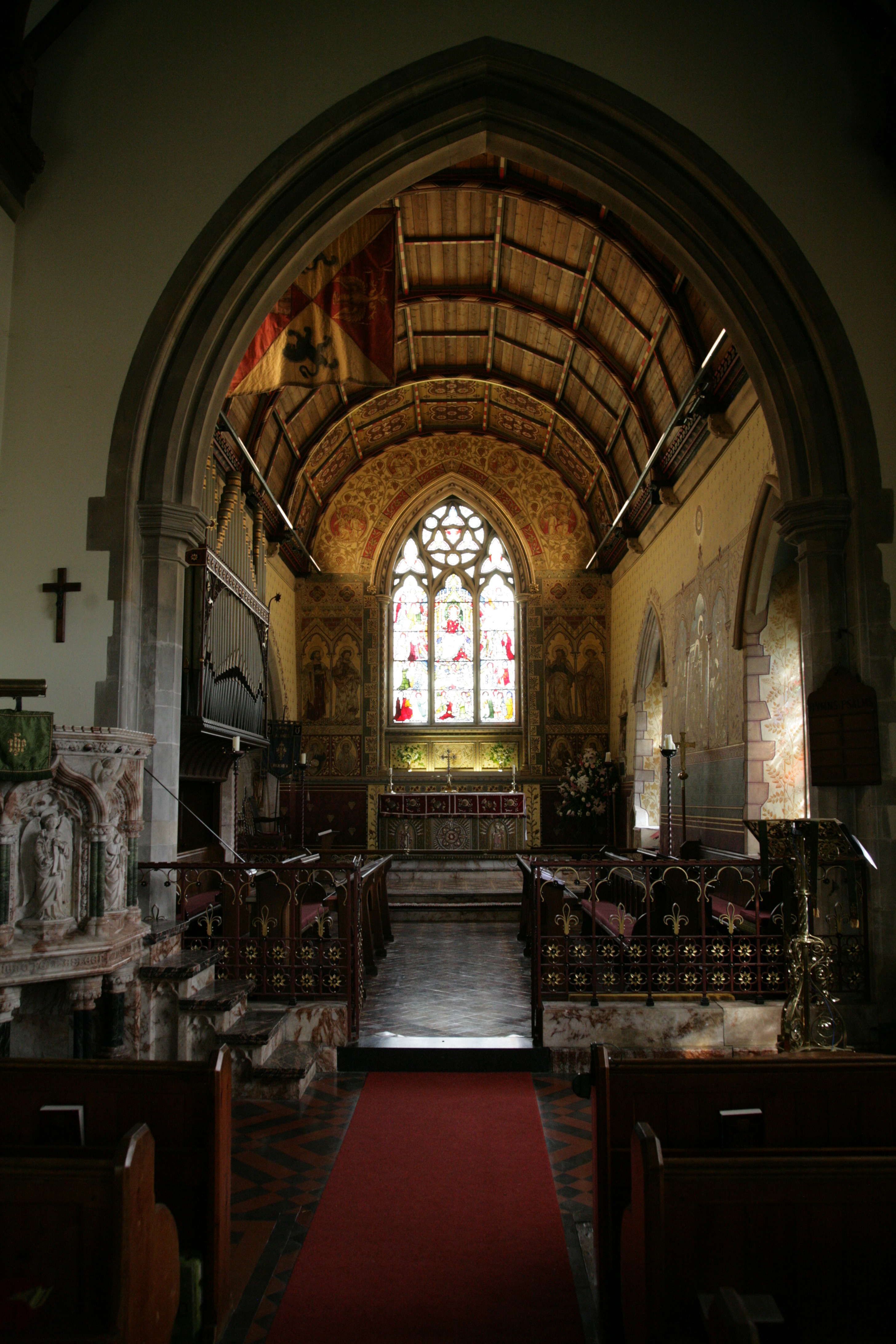 The church St. Michael and All Angels in Hughenden, High Wycombe.